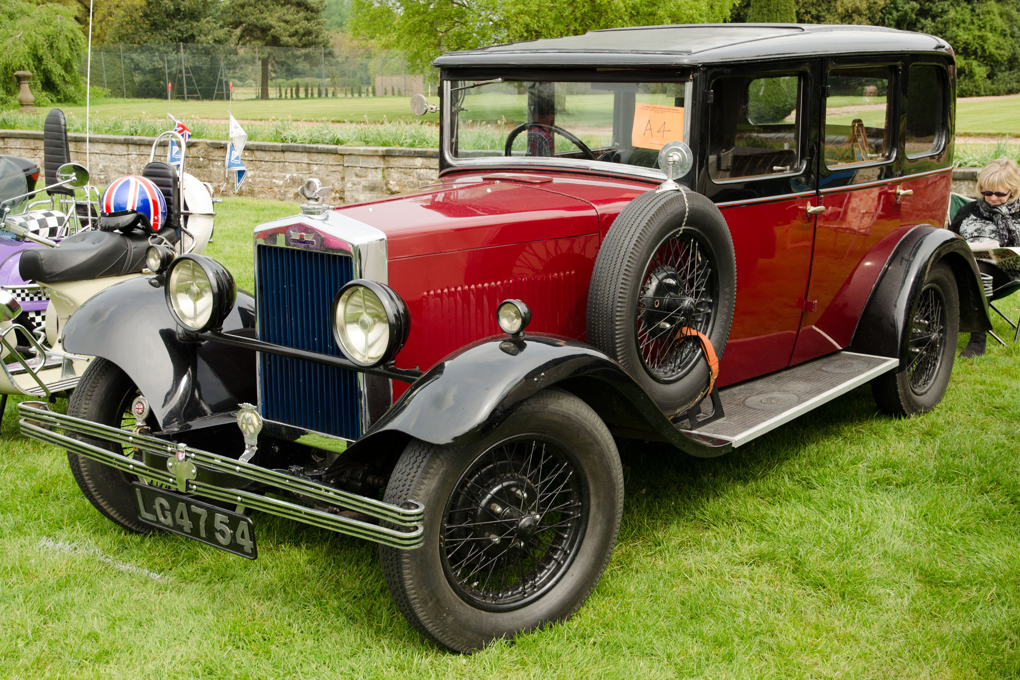 1930 Morris Oxford Six saloon (DVLA) manufactured 1930, 1936cc Catton Hall Classic Car Show 04/05/2014